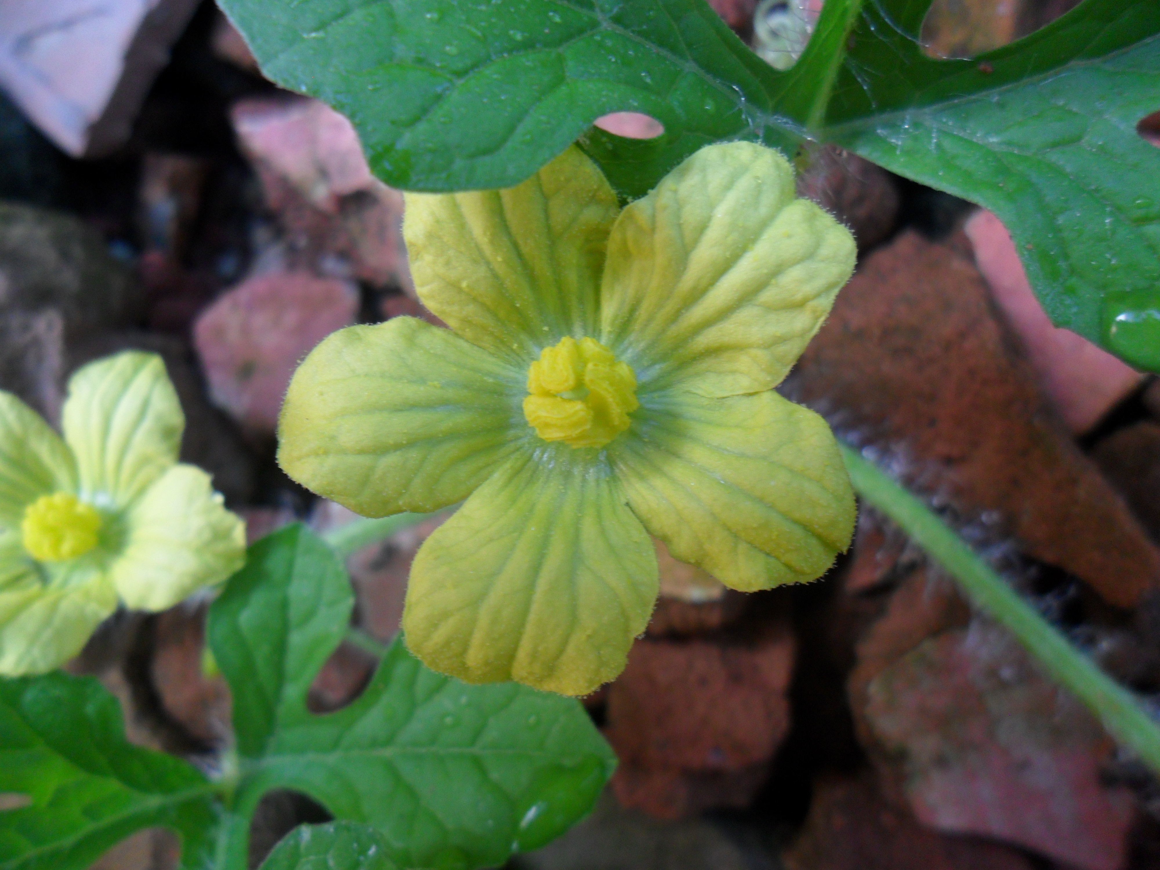 Flower Watermelon (Citrullus lanatus).